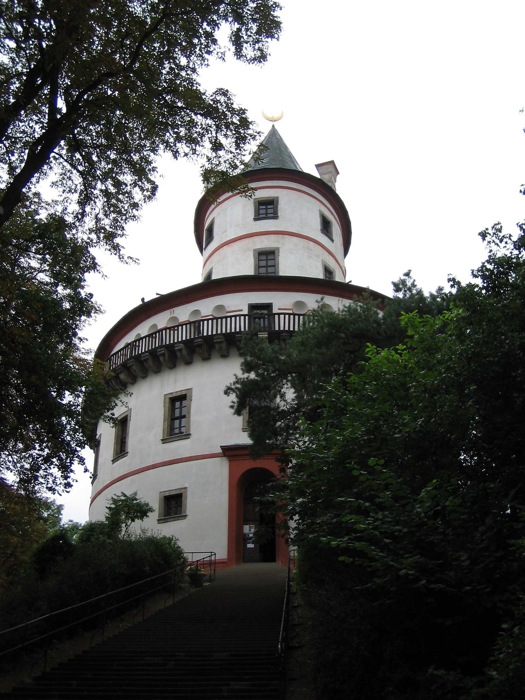 Humprecht castle near Sobotka